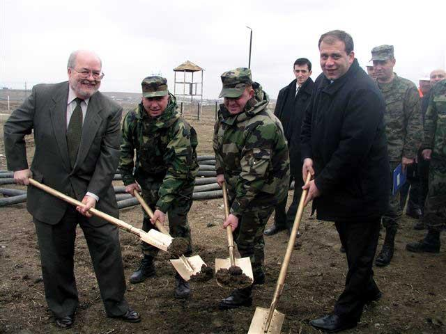 Ambassador Miles, Krtsanisi Commander Alex Kiknadze, Chief of General Staff Levan Nikoleishvili, and Deputy Minister of Defense David Sikharulidze break ground at the Krtsanisi Training Area.